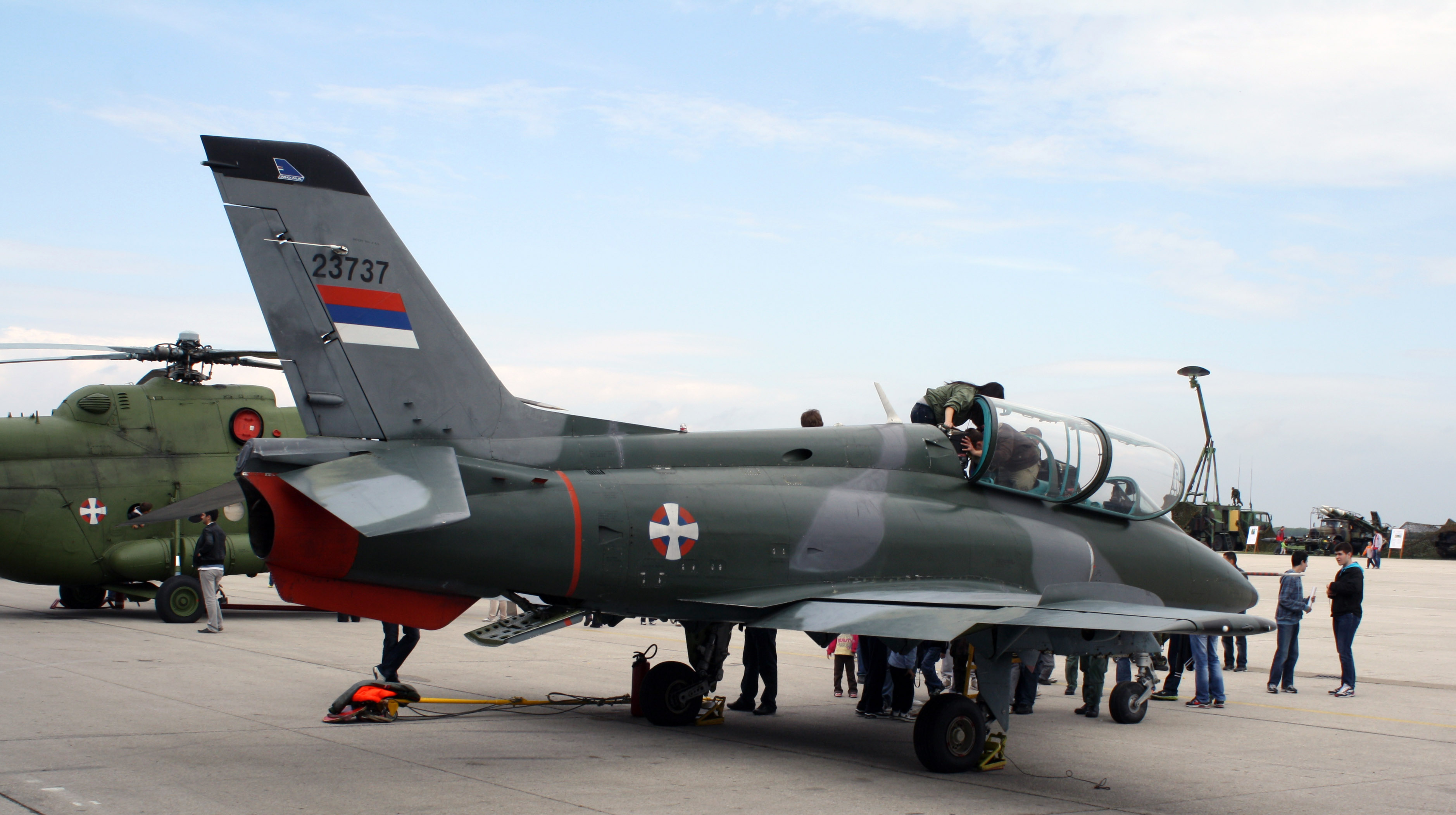 G-4 Super Galeb trainer/light attack jet aircraft No.23737 of 252. Training Squadron, 204th Air Brigade of Serbian Air Force, on display at Batajnica airbase during the Batajnica 2012 open day.